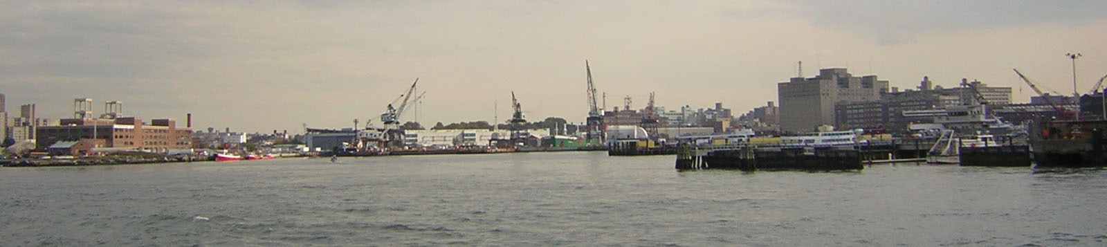 Brooklyn Navy Yard, as seen from the middle of the East River on a cloudy day